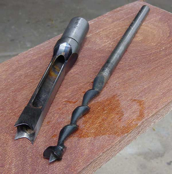 Hollow morticing chisel and bit. Picture by SilentC